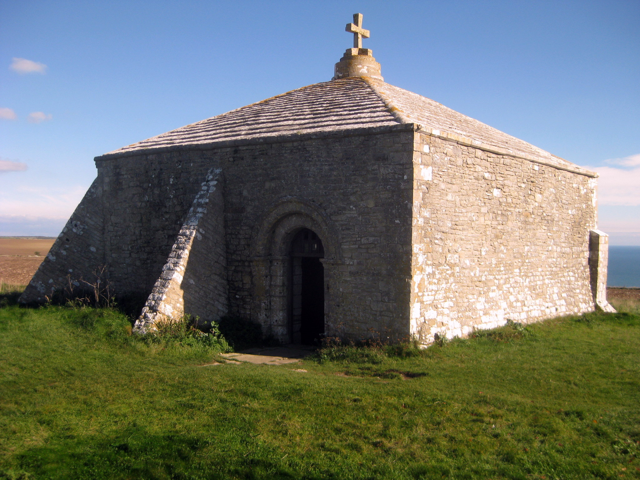 St Aldhelm's Chapel on St Albans Head by Worth Matravers, on the Isle of Purbeck, Dorset, England St Aldhelm's Kapelle, St Albans Head, bei Worth Matravers, Isle of Purbeck, Dorset, England